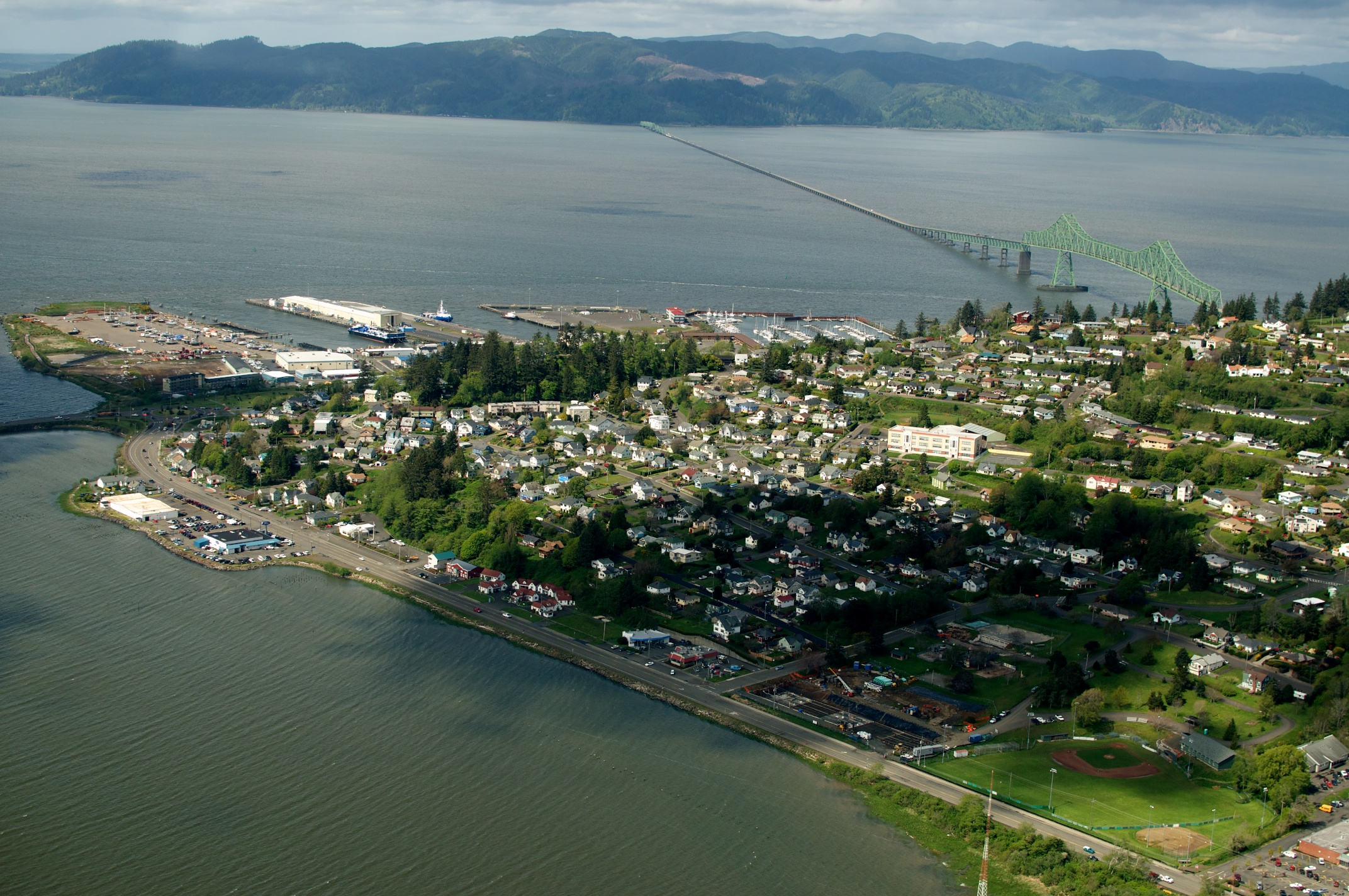 Astoria aerial from Youngs Bay